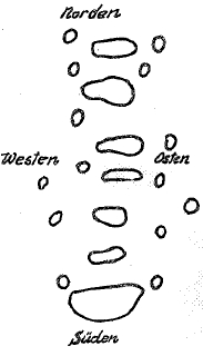 Layout of the Dolmen Ziepel 1